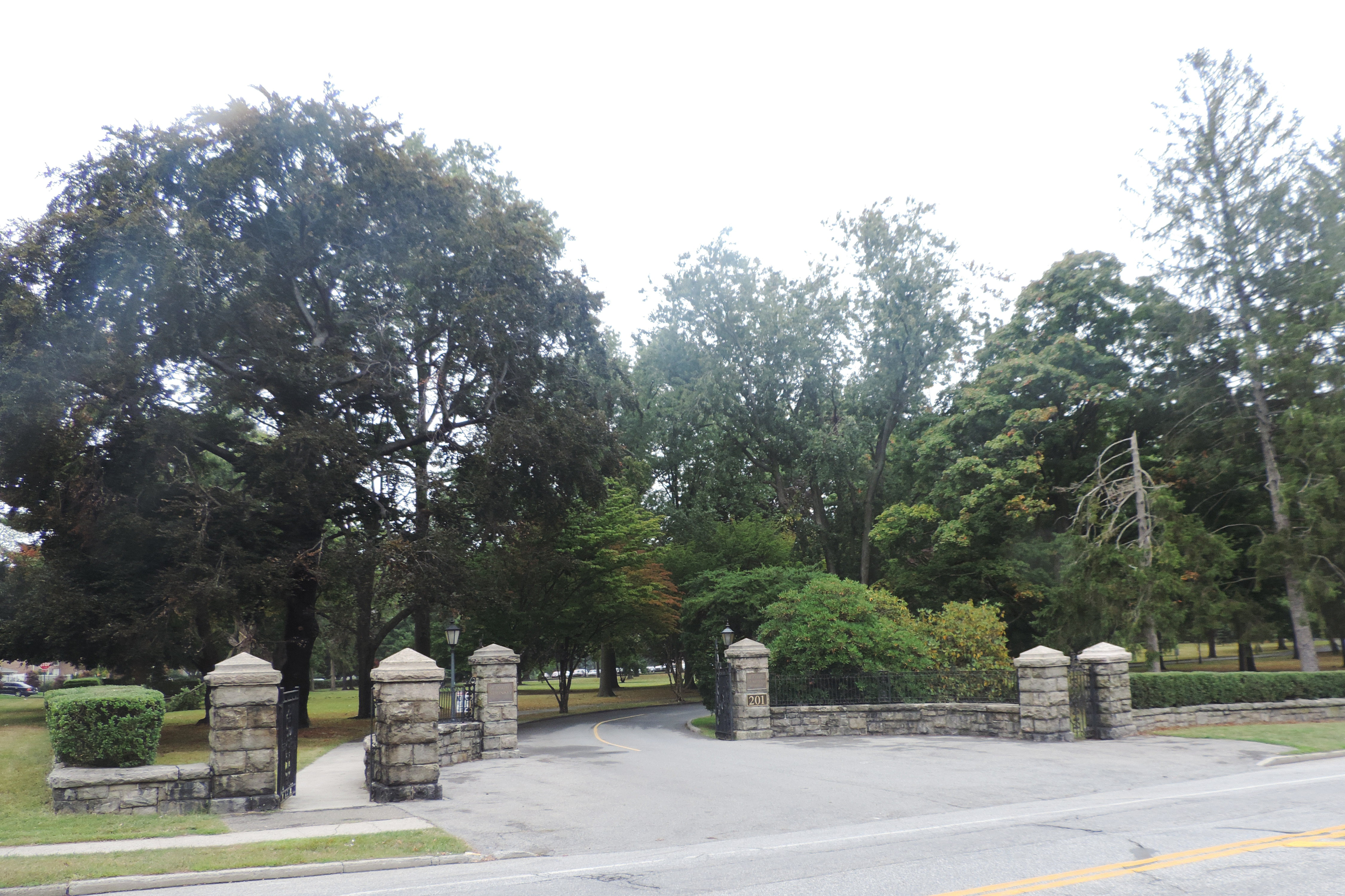 Looking northwest at St Joseph's Seminary, southern Yonkers. File is misnamed; it isn't John.